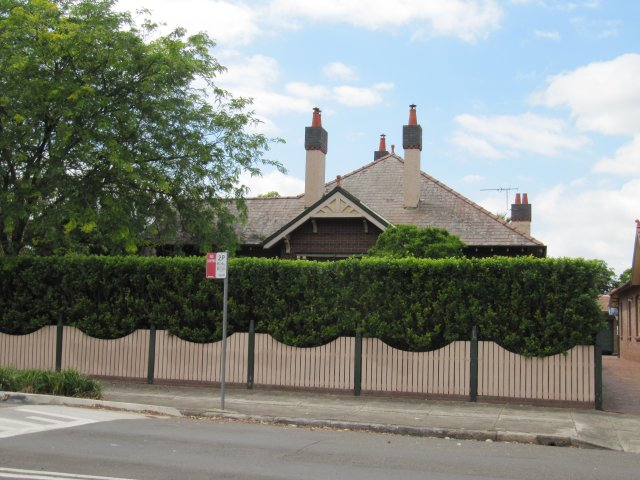 Derrylyn